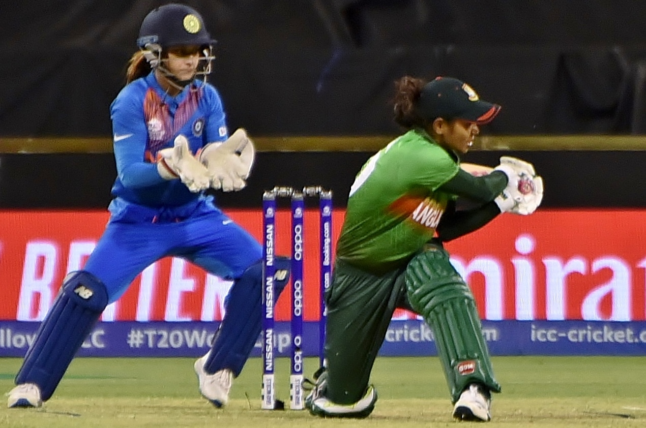 Sanjida Islam batting for Bangladesh against India during their 2020 ICC Women's T20 World Cup match at the WACA Ground in Perth, Australia. The wicket-keeper is Taniya Bhatia.